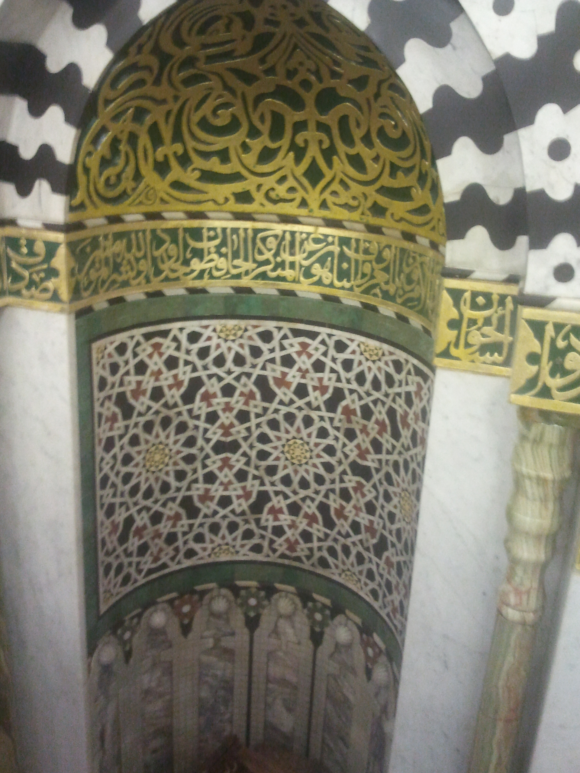 Mihrab Nabawi at al-Masjid al-Nabawi